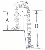 Sketch of the chain model of siphon operation where a chain runs over a pulley from a higher level to a lower level.